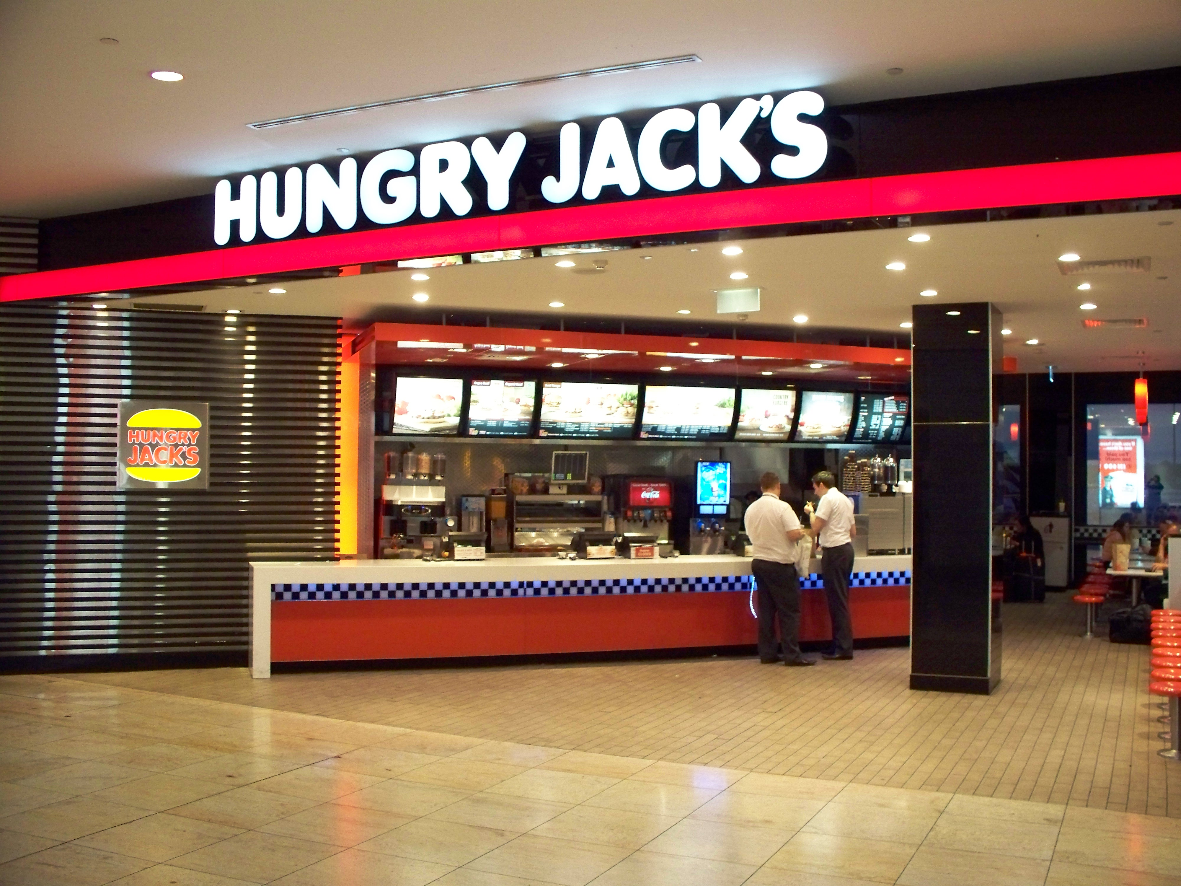 A Hungry Jack's outlet within Melbourne Airport Terminal 2. This picture was taken using a 12MP Kodak EasyShare Z1275 camera.